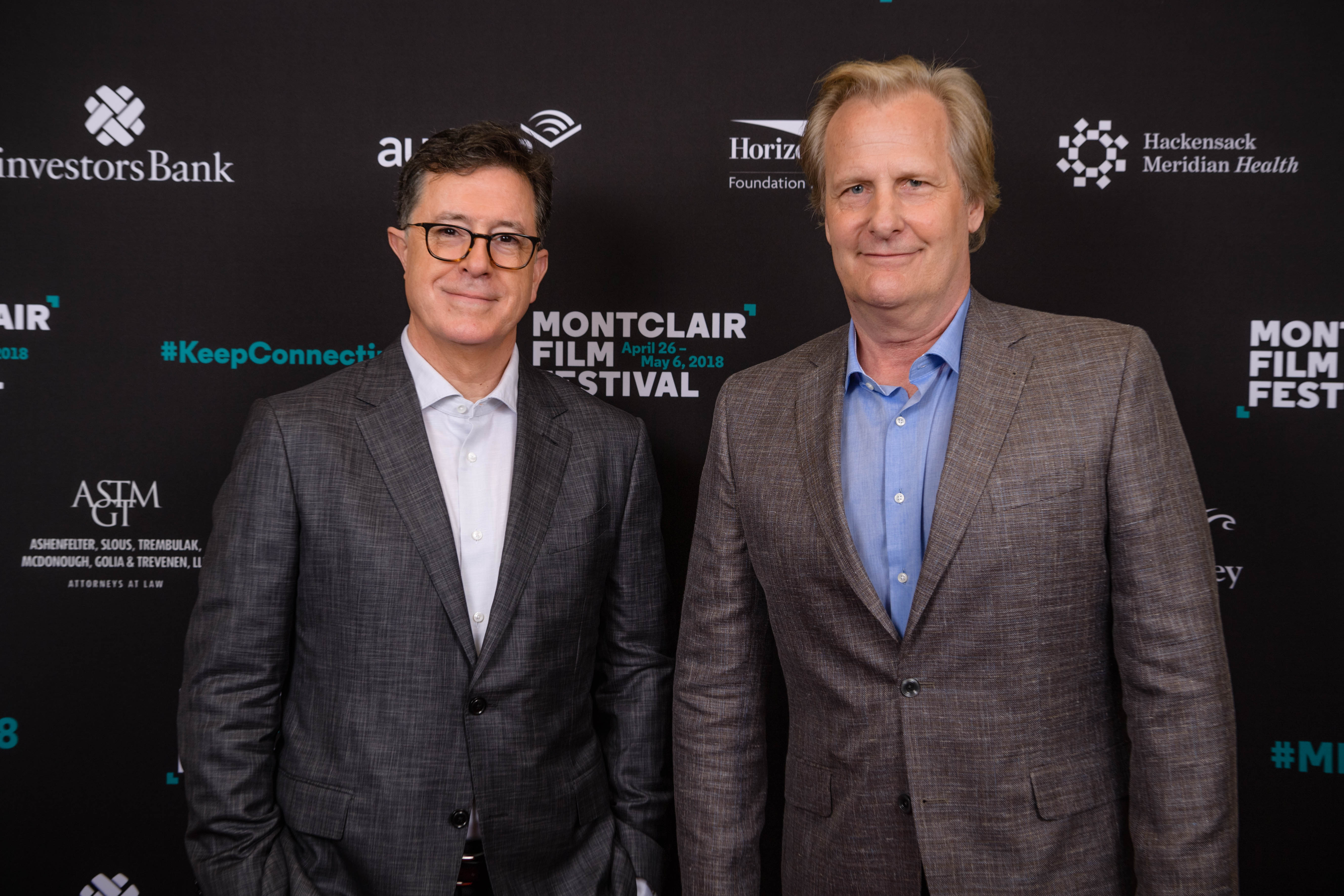 Stephen Colbert and Jeff Daniels at the Montclair Film Festival 2018.